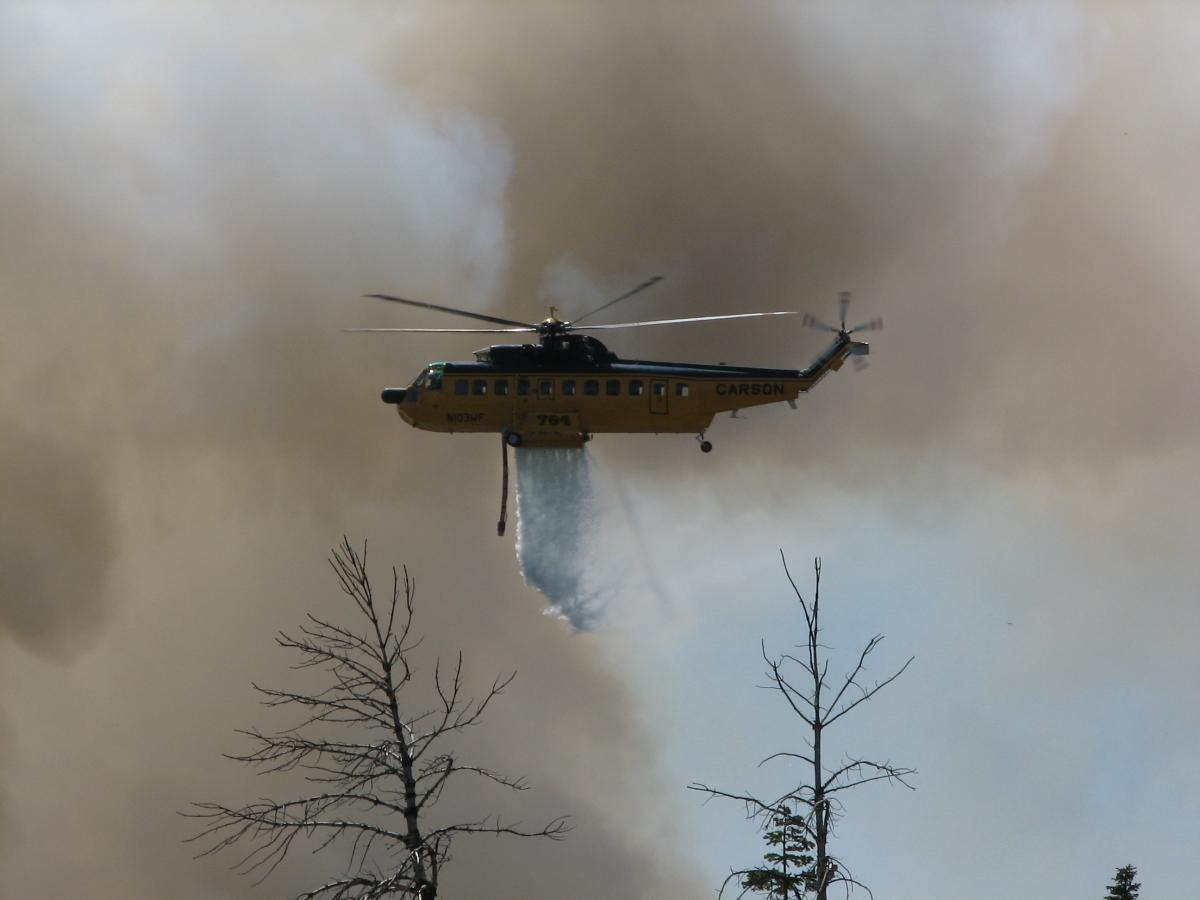 Carson S-61N Fire King type 1 helitaker making a water drop